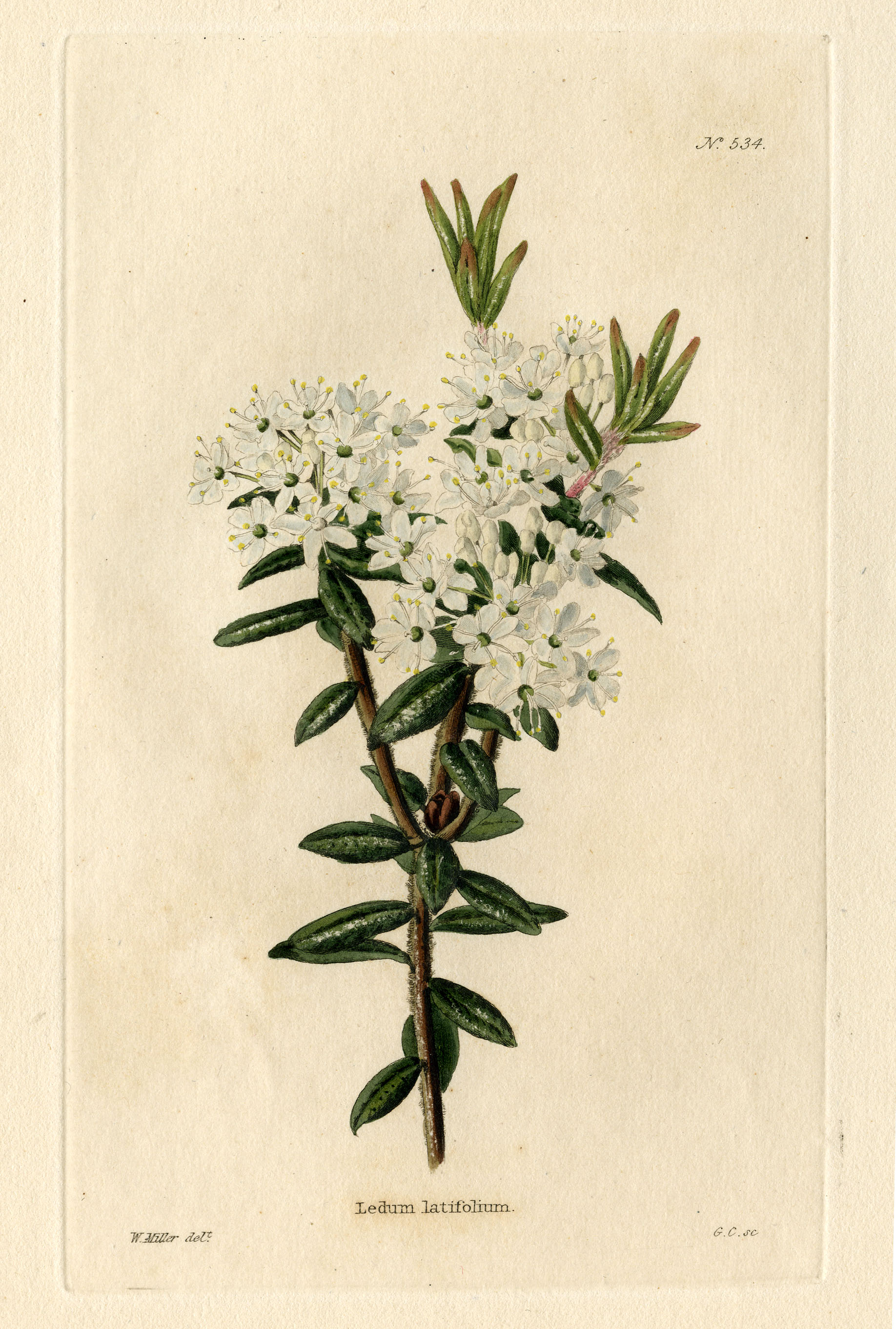 Ledum latifolium (Rhododendron groenlandicum) drawn by William Miller from "The Botanical Cabinet" (London 1817-1833) plate 534